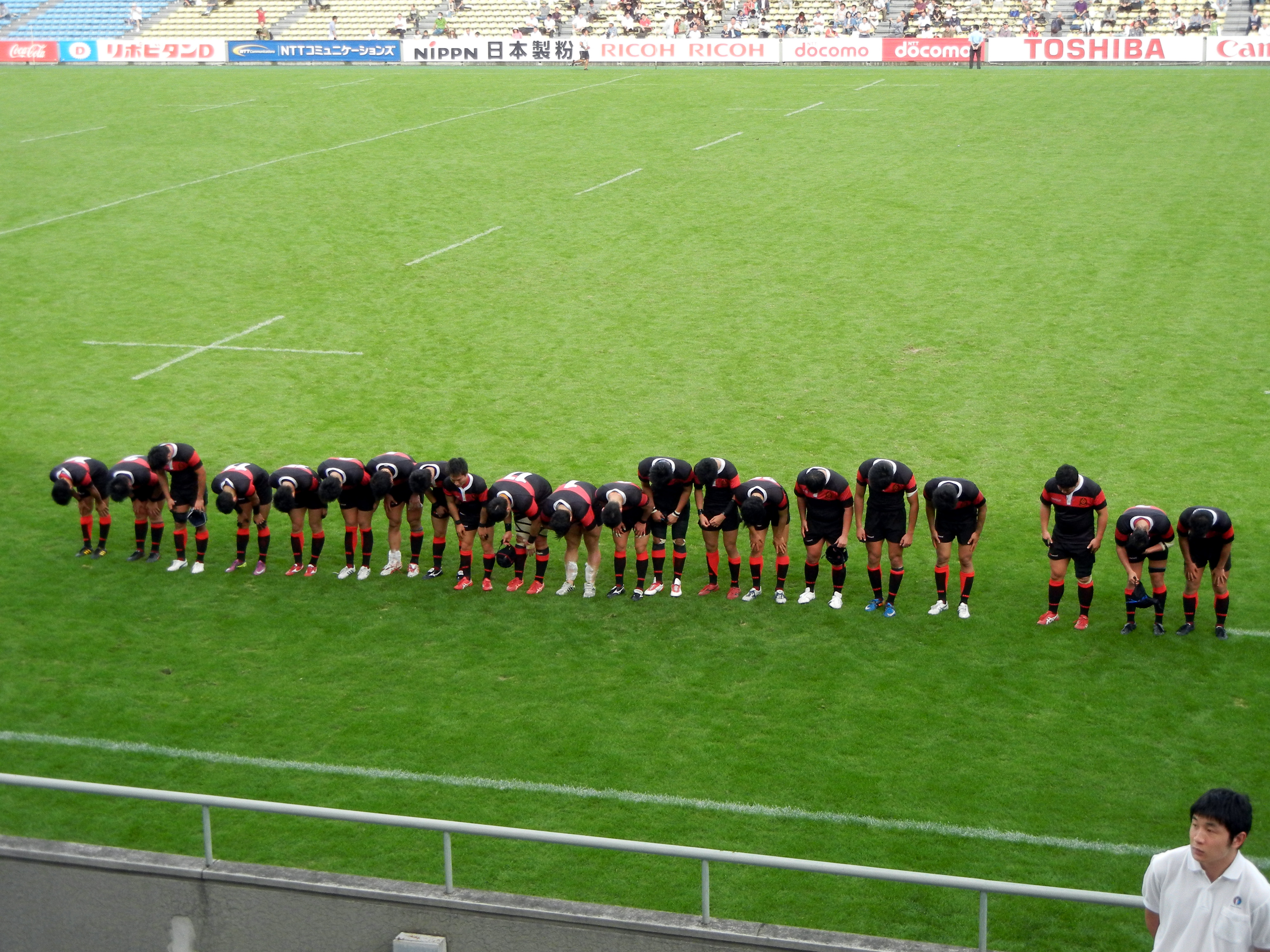 Seikei University Rugby Football Club Players